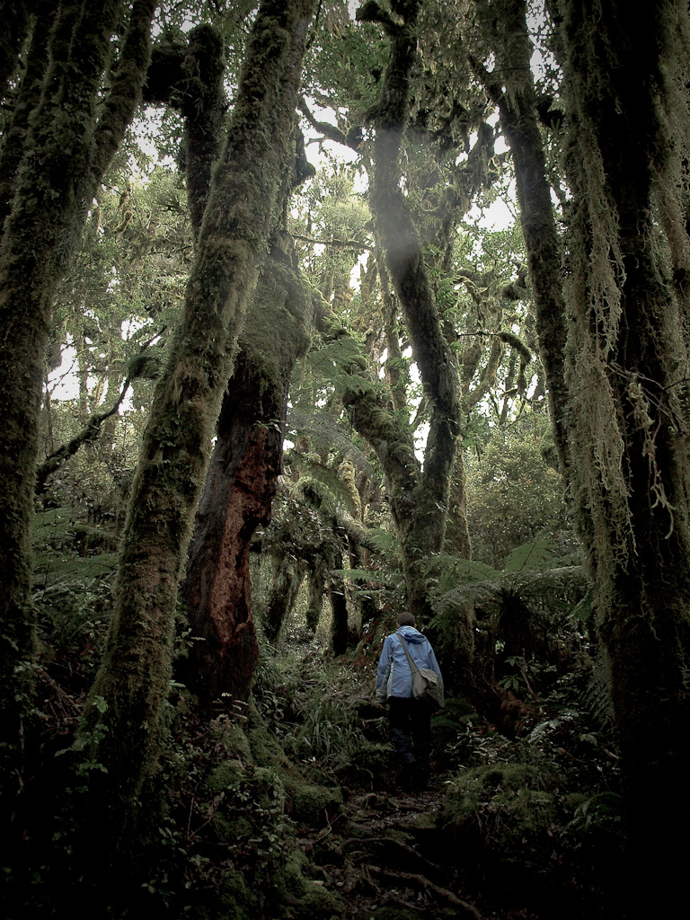 Te Pureora forest, South Waikato District, Waikato, NZ